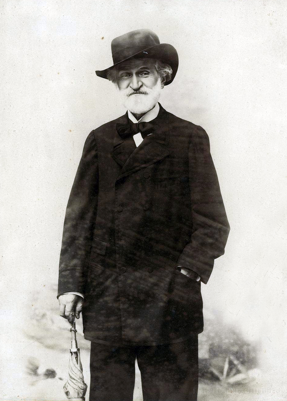 Giuseppe Verdi in 1899. Photograph of Giuseppe Verdi taken by Pietro Tempestini at Montecatini Terme.